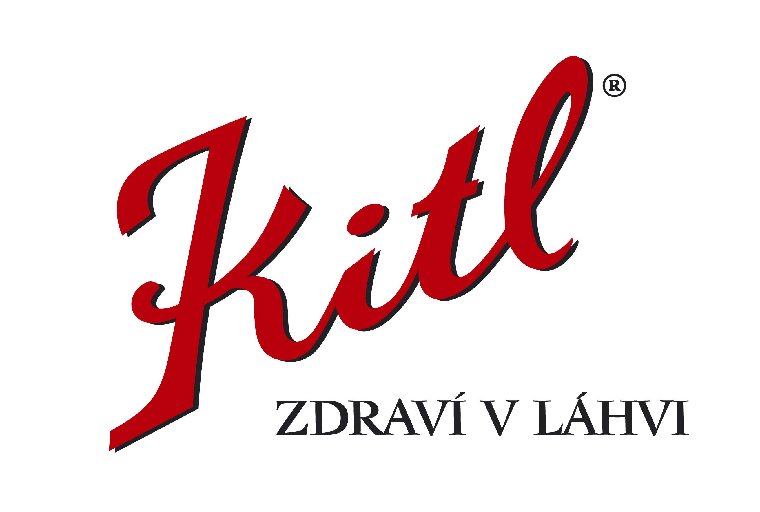 It is in the bottle.